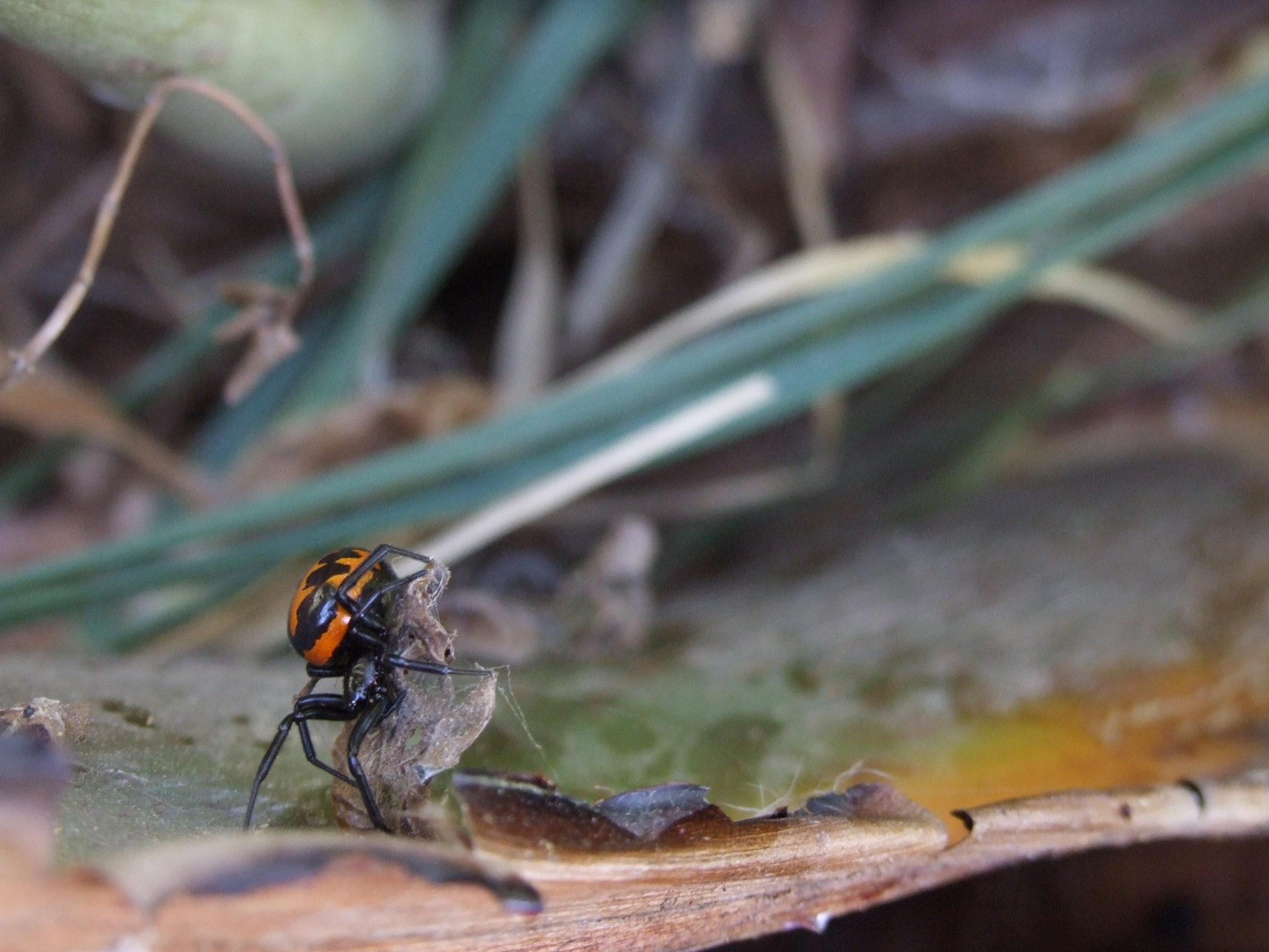 Steatoda paykulliana, False widow spider